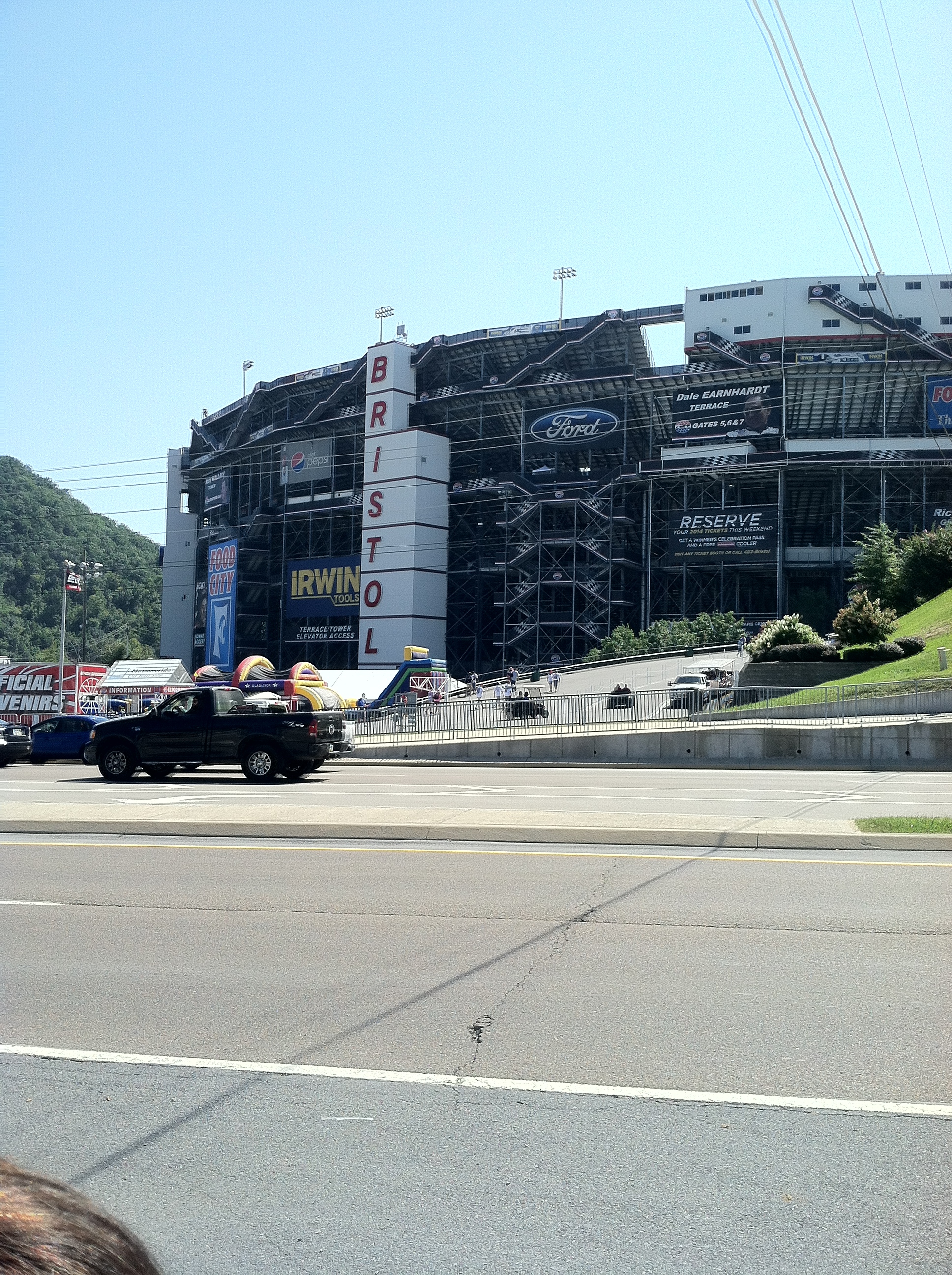 Race day 2013 outside of turn 2 at Bristol Motor Speedway.